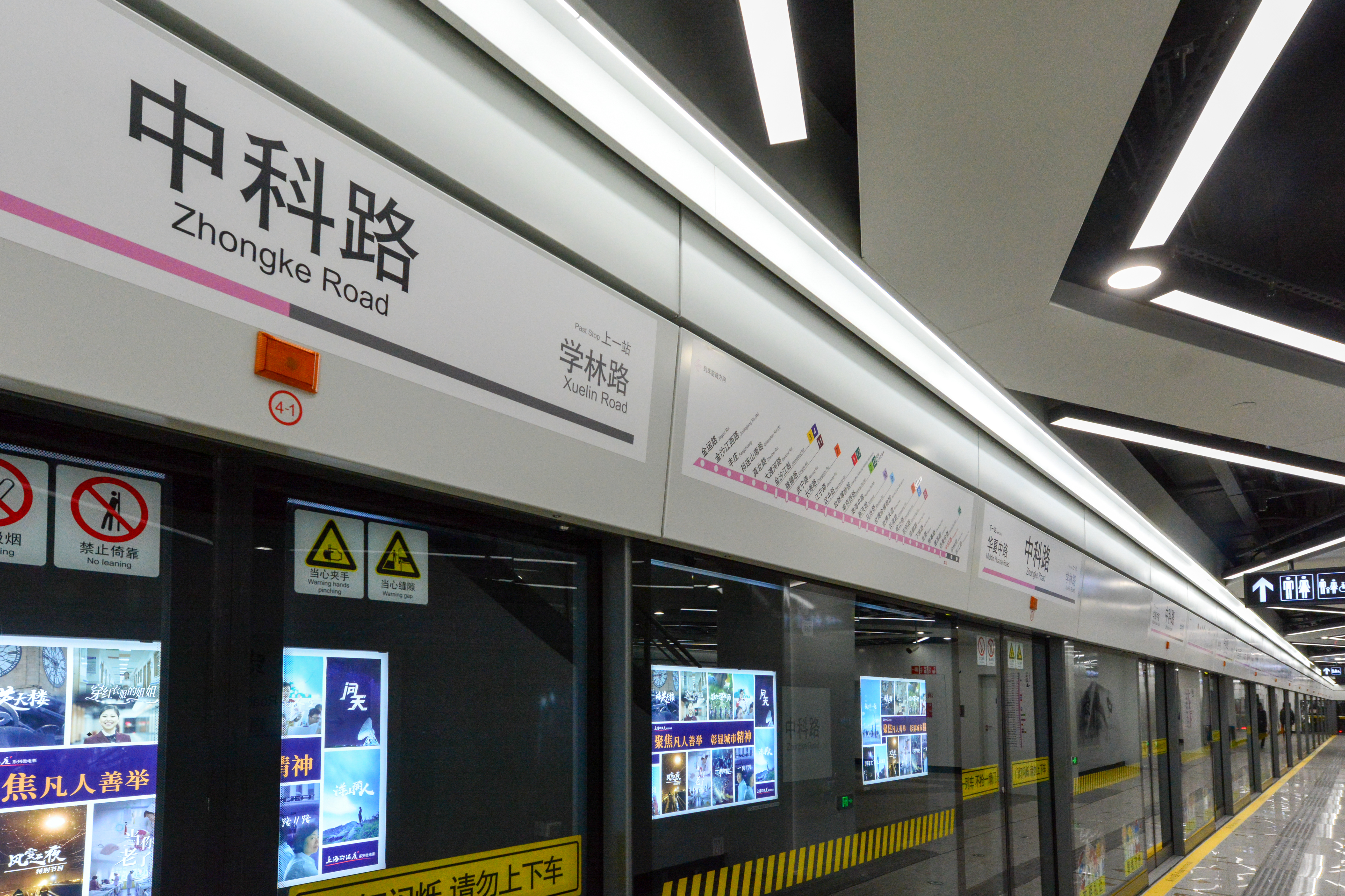 The platform in Zhongke Road Station of Shanghai Metro Line 13 on its opening day, December 30, 2018. This platform is for train bound for Jinyun Road Station.